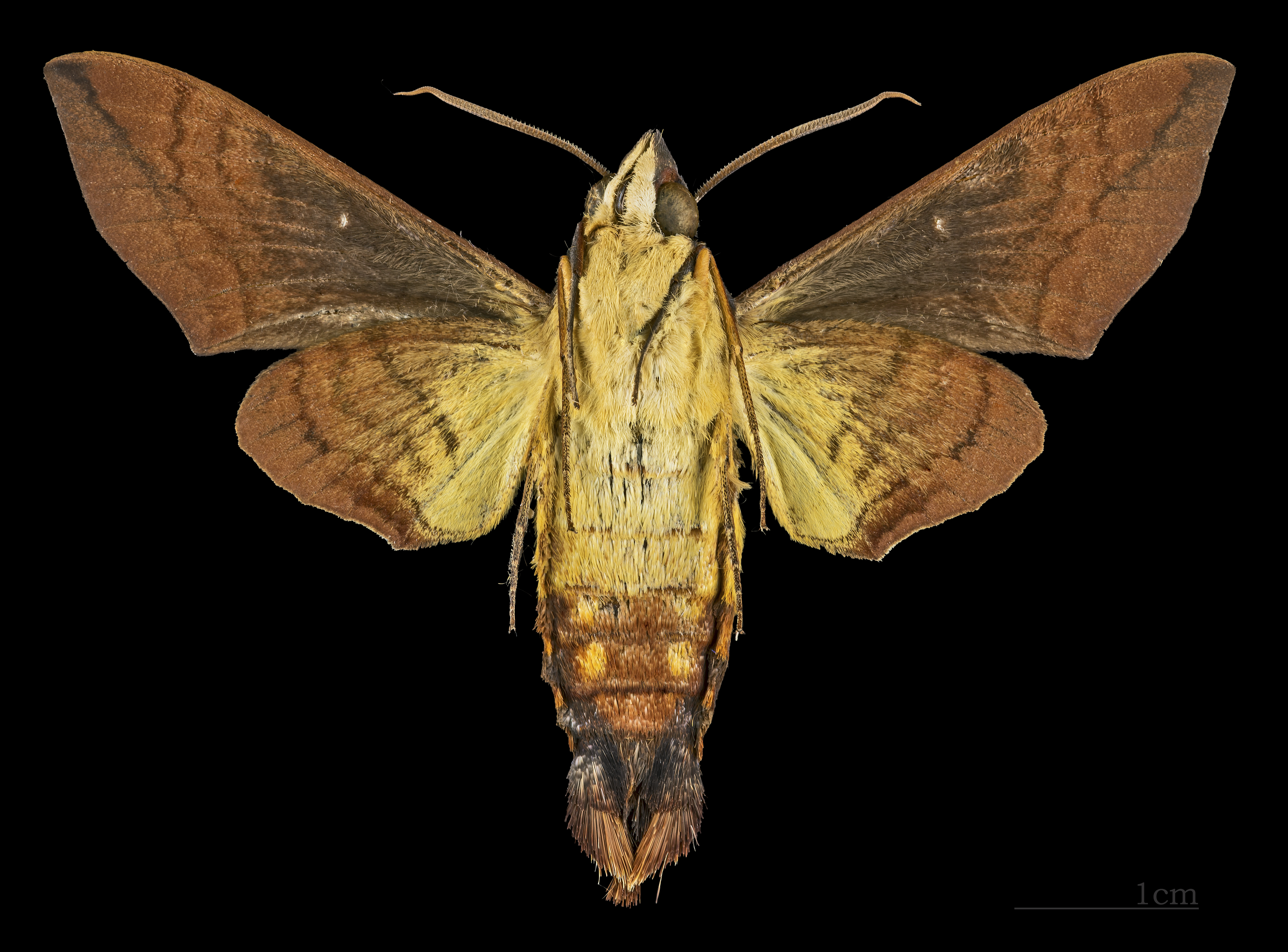 Eupyrrhoglossum venustum - △ Ventral side Collection of the Mathematician Laurent Schwartz